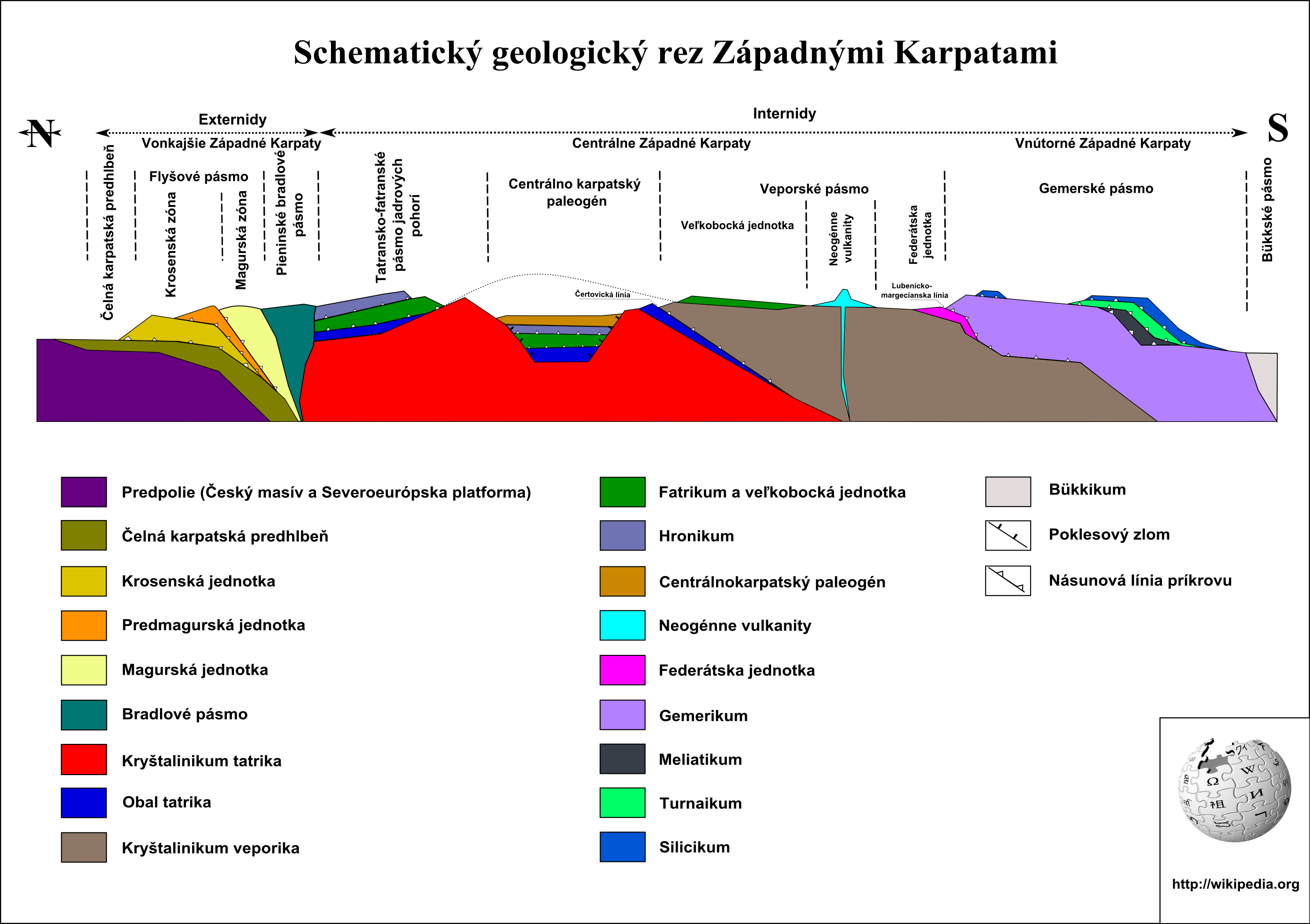 Schematic section of Western Carpathians, modified after Hók et al. (2000, p. 16.)